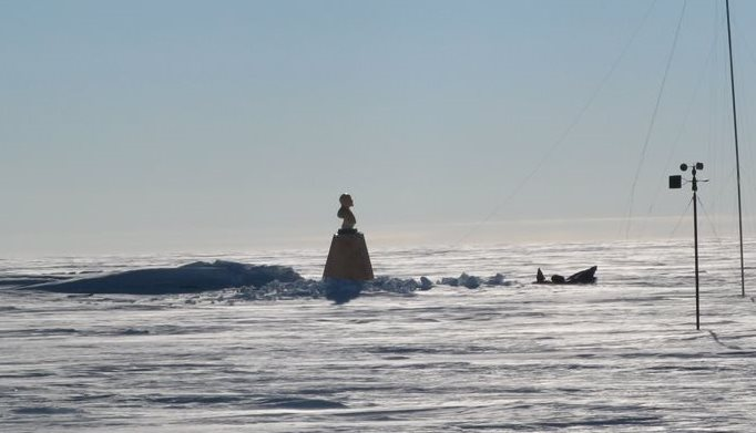 Bust of Lenin in the Pole of Inaccessibility